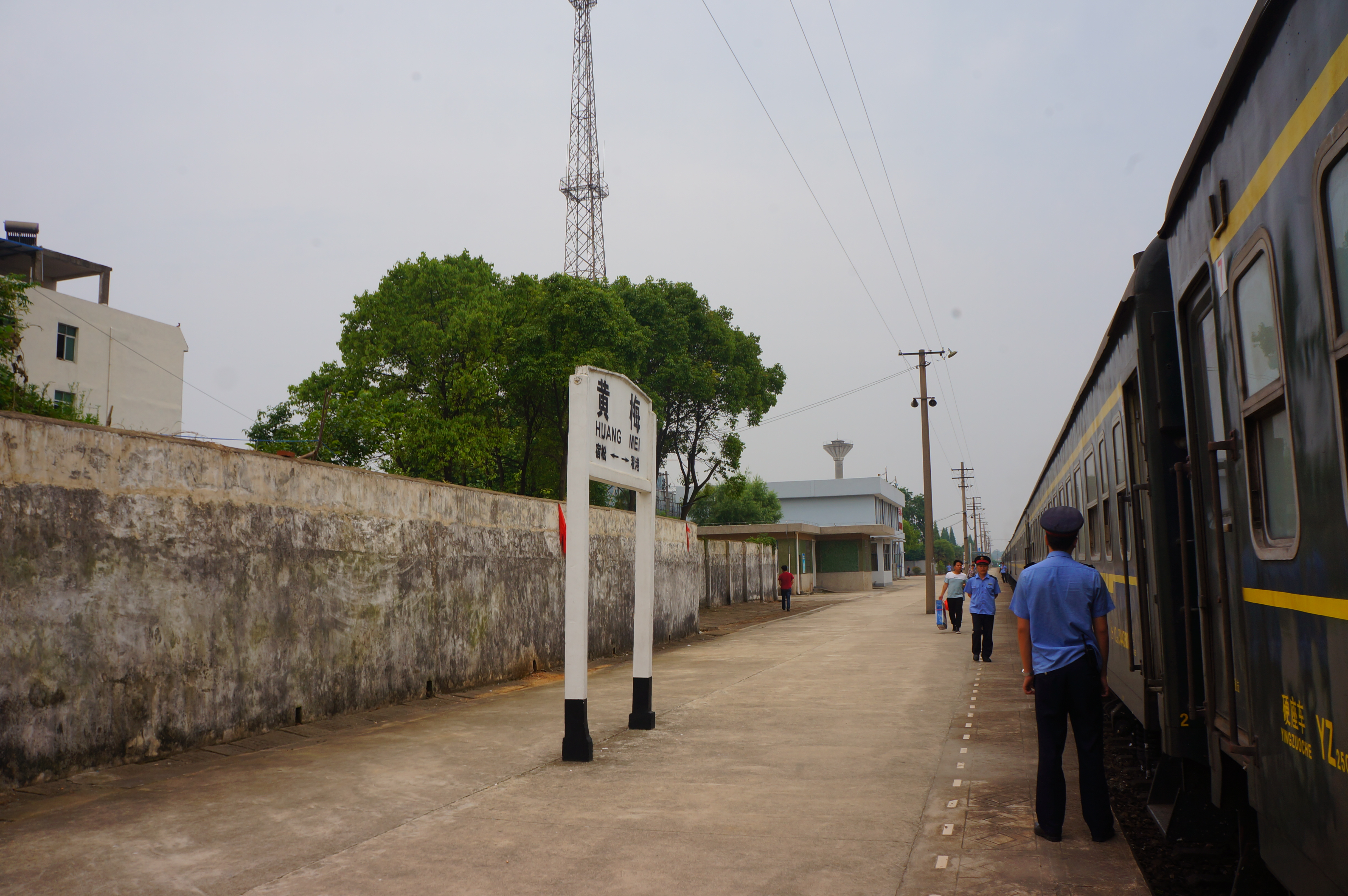 201705 Platform of Huangmei Station. I have no idea why does SR treat this border station soo badly.